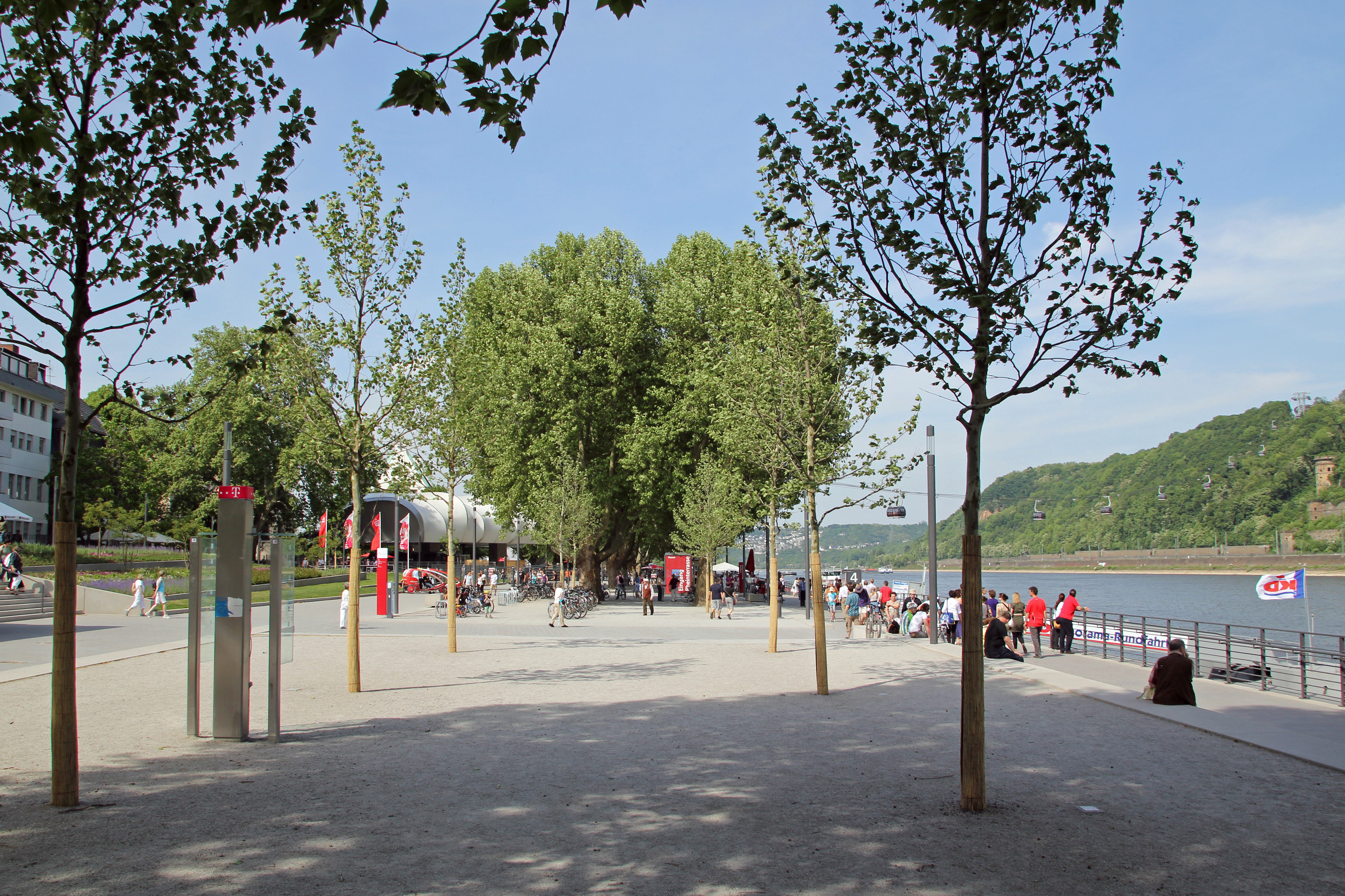 Rhine park in Koblenz